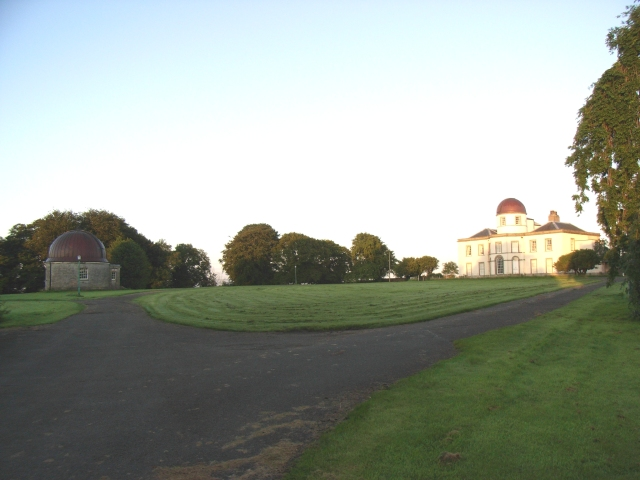 Dunsink Observatory Established in 1783. Now home to the Astronomy & Astrophysics Section of the Dublin Institute for Advanced Studies. On the right is the main building. On the left is the dome housing the 12" Grubb refractor. William Rowan Hamilton O1337 was a director of the observatory.